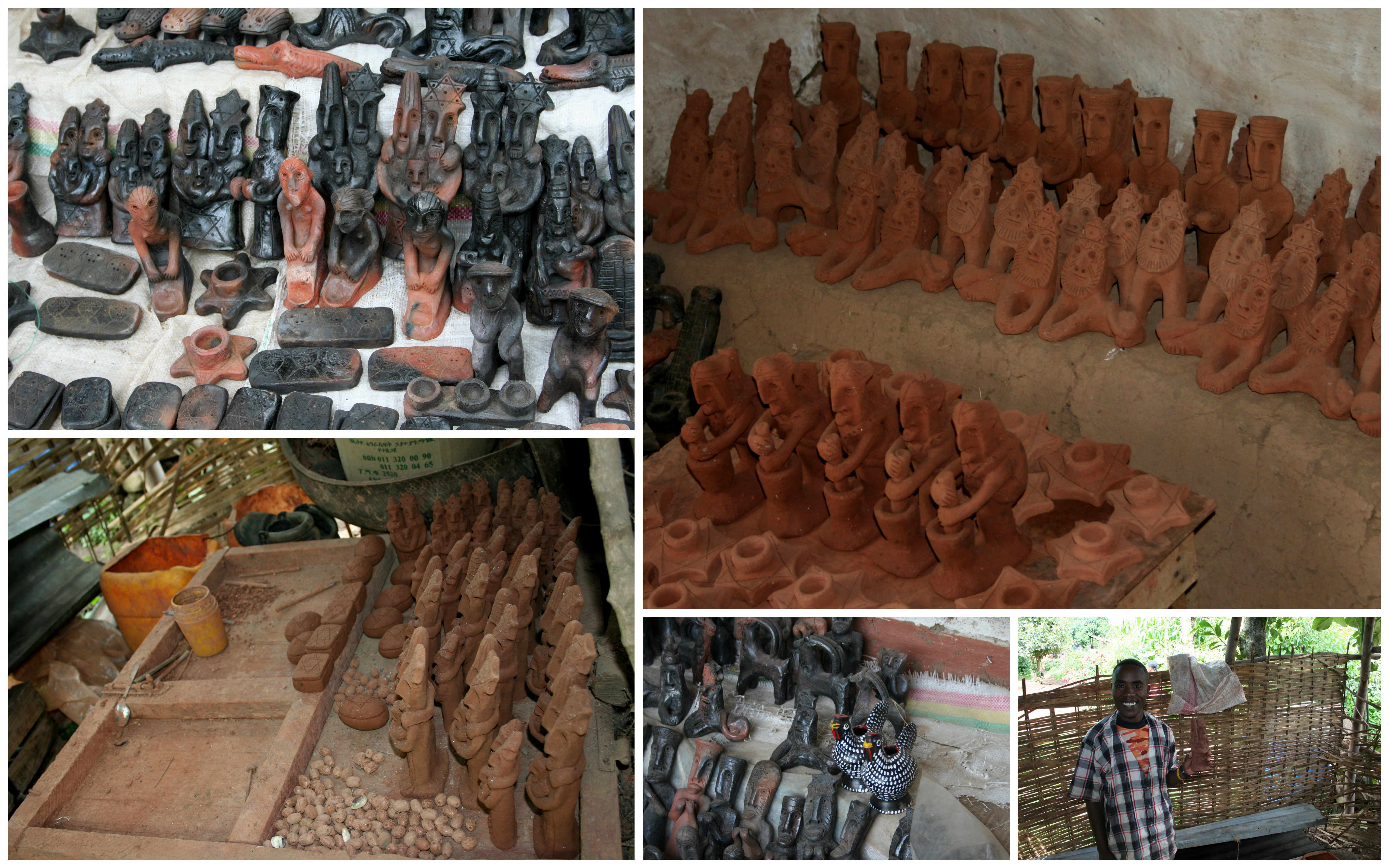 Falasha Village pottery